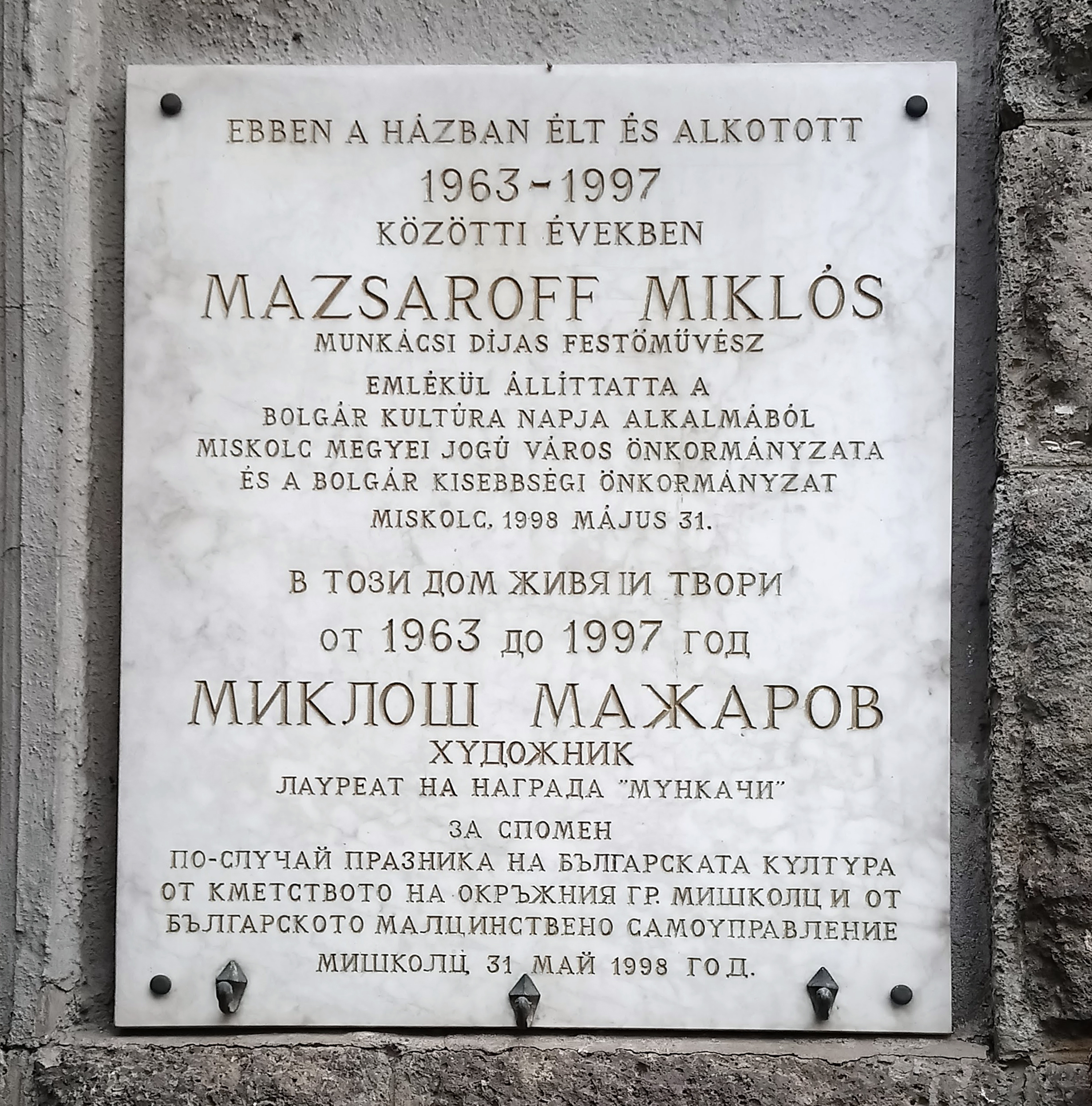 Miklós Mazsaroff Plaque, 1 Soltész Nagy Kálmán Street, Miskolc, Hungary